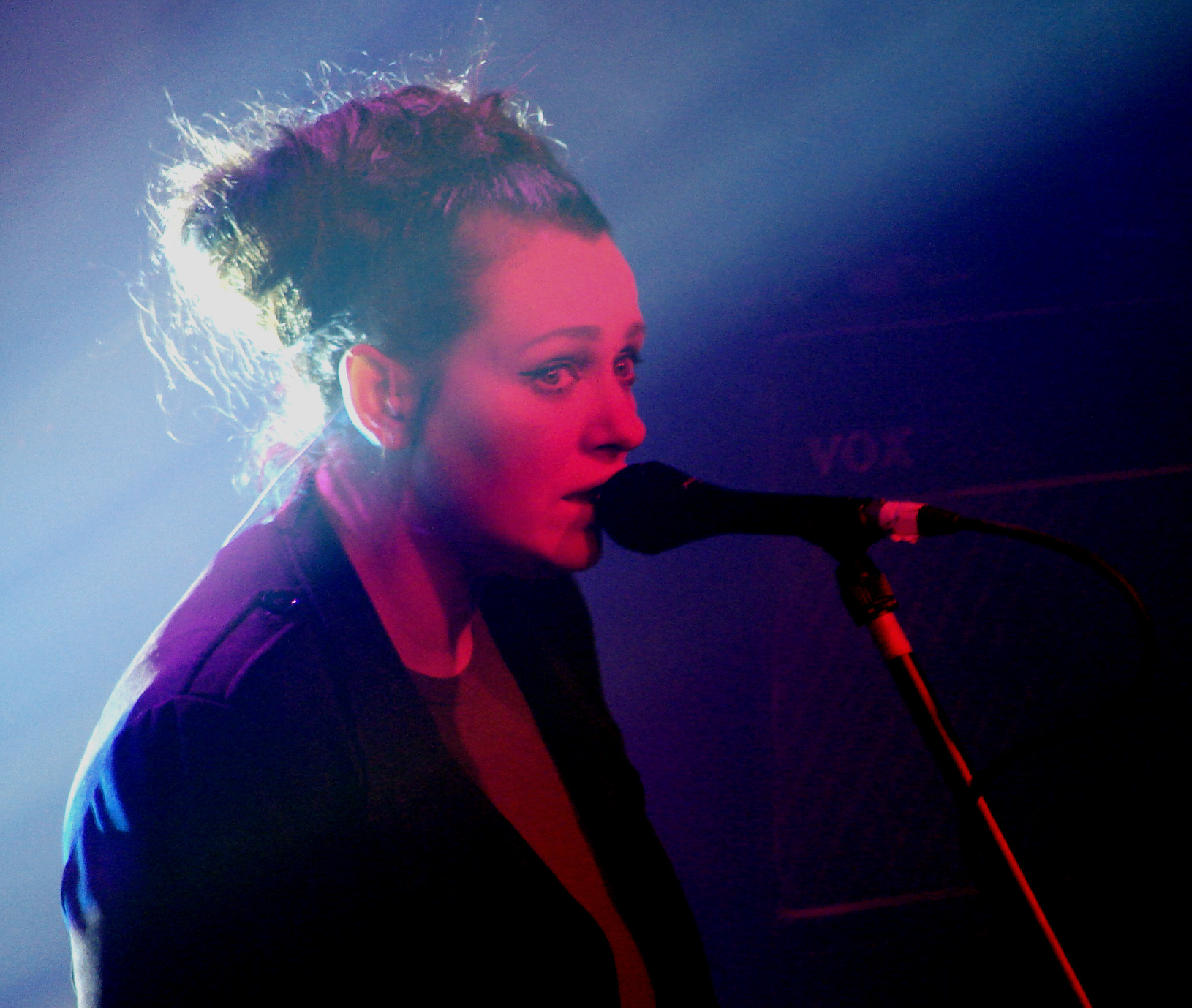 Katarzyna Nosowska during the show of the band Hey in Exit club, Greenpoint, New York.